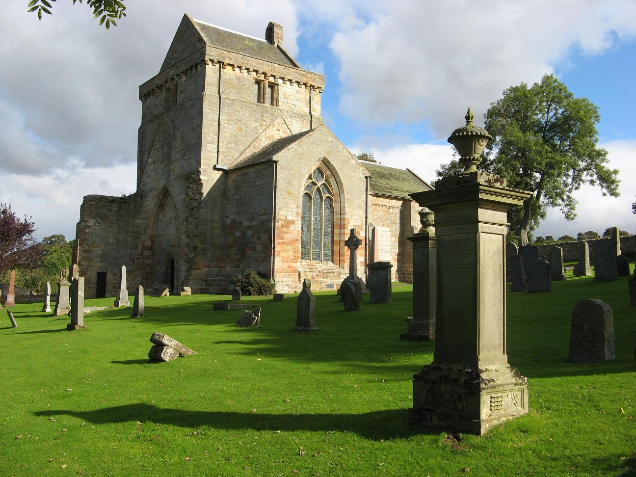 Crichton Collegiate Church, Midlothian, Scotland.